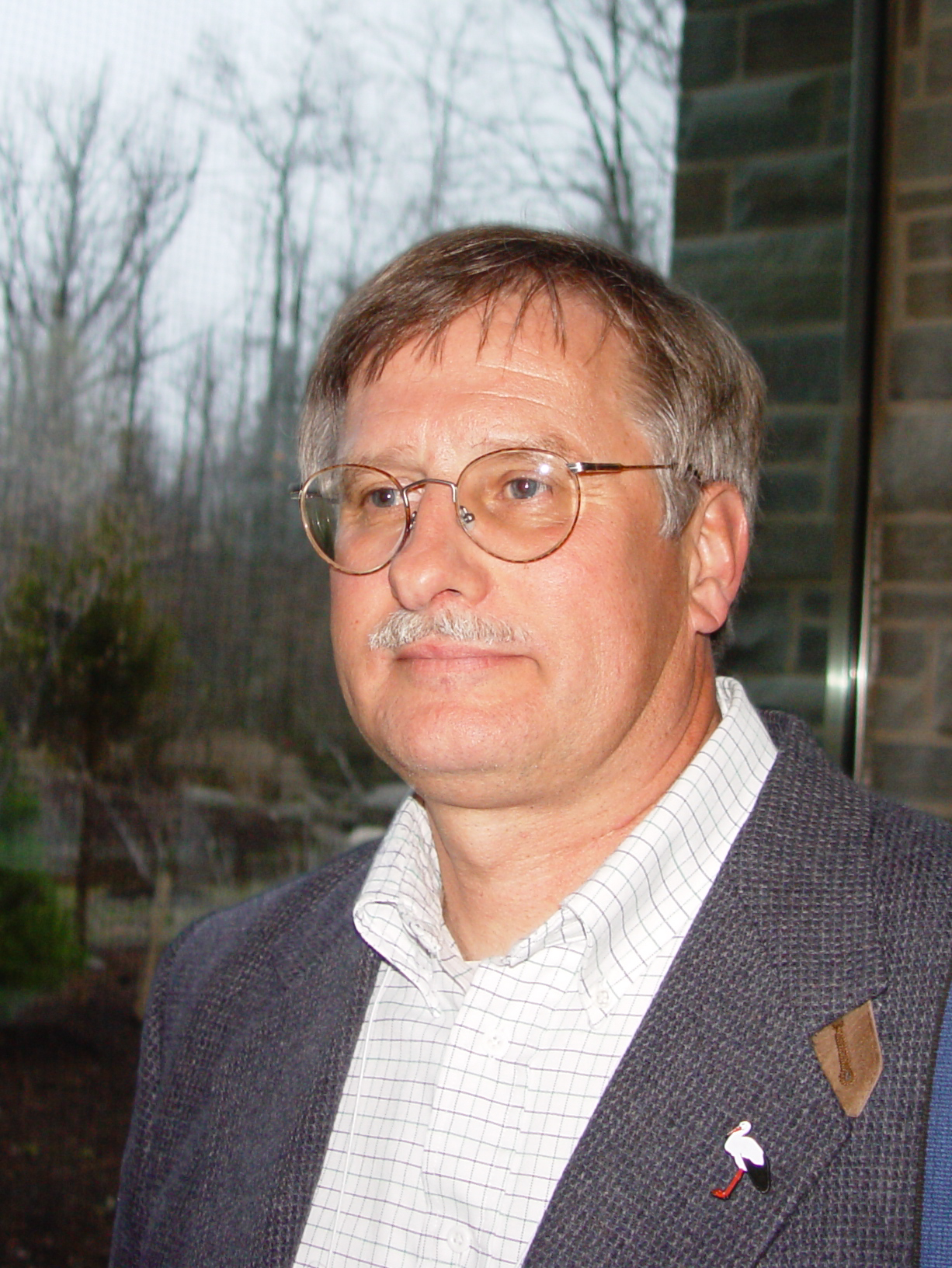 April 2004 at the Cornell Lab of Ornithology